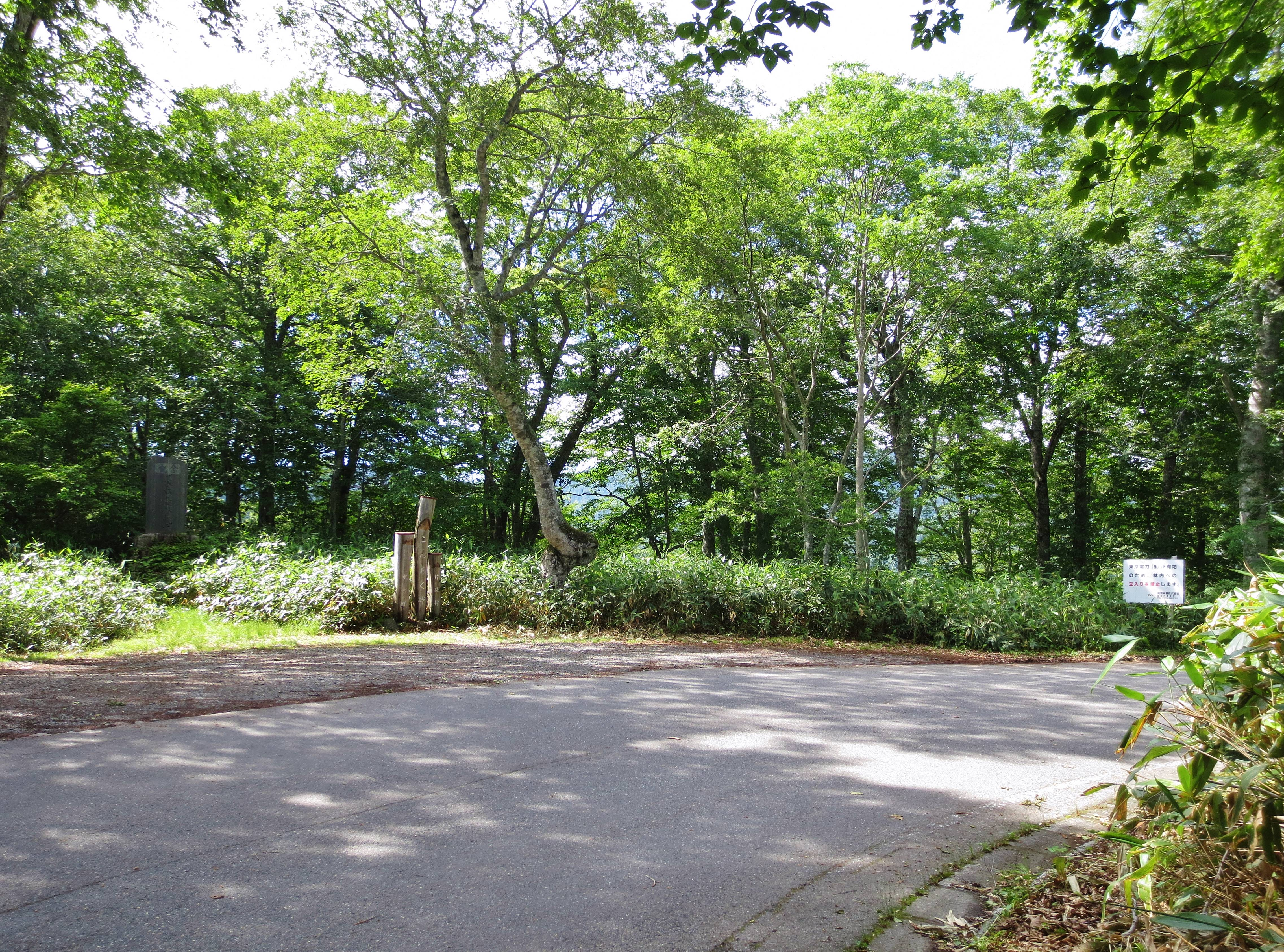 Konroku Pass.